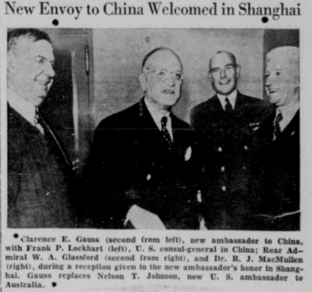 Frank P Lockhart, Clarence Gauss, Admiral Stafford and RJ McMullen in Shanghai 1941